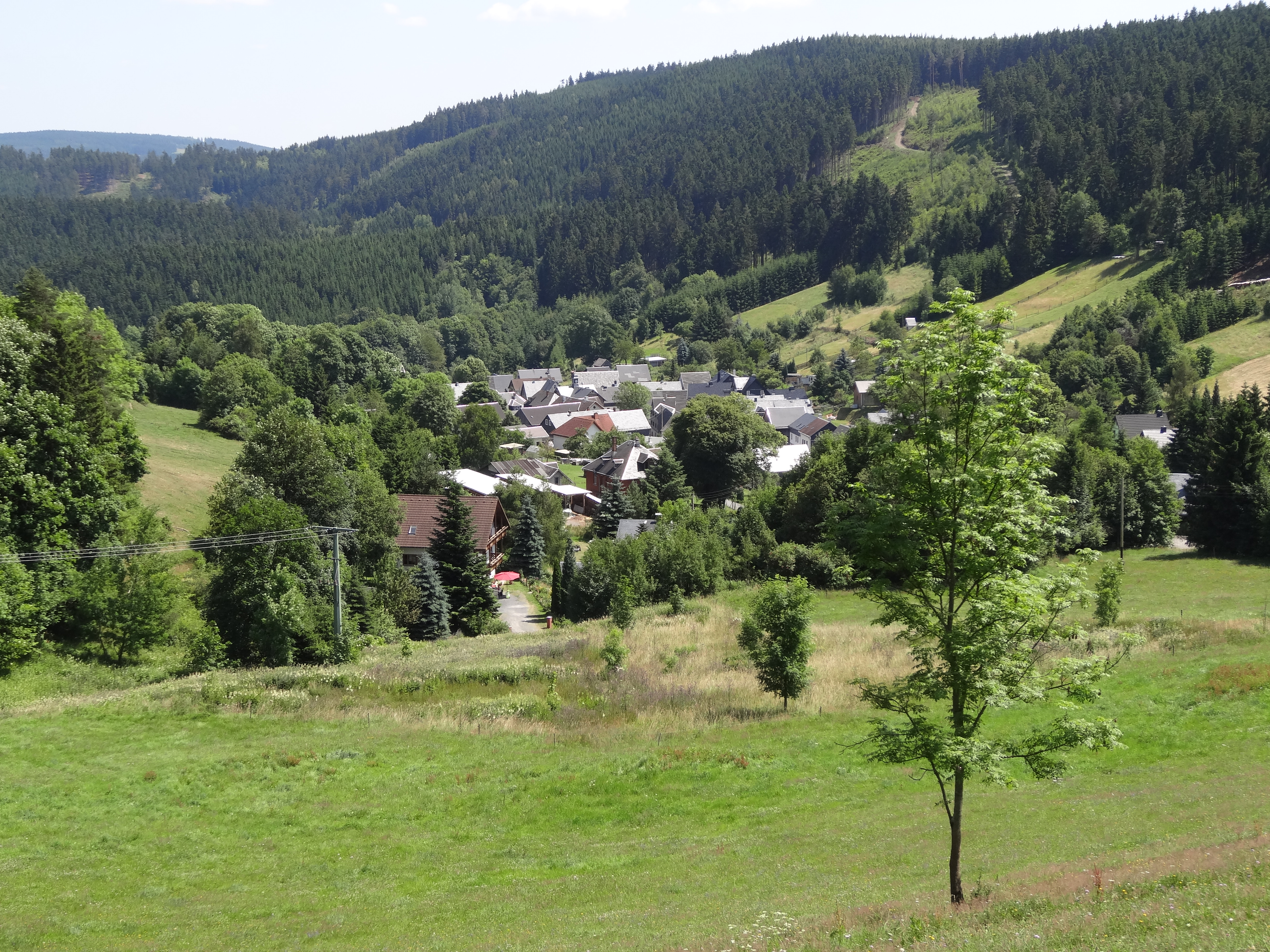 View on Lippelsdorf, Thuringia, Germany